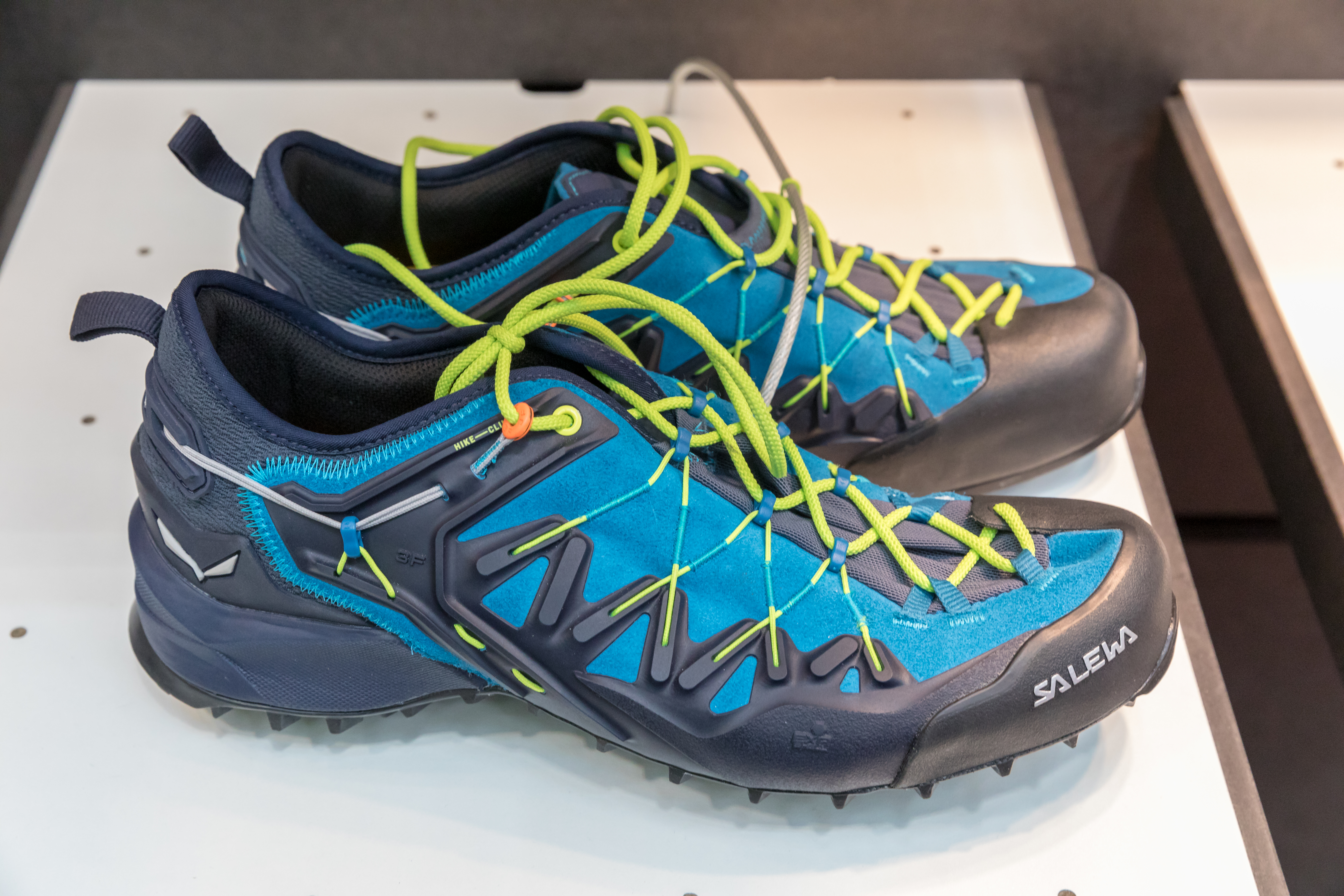 Salewa shoes at OutDoor 2018